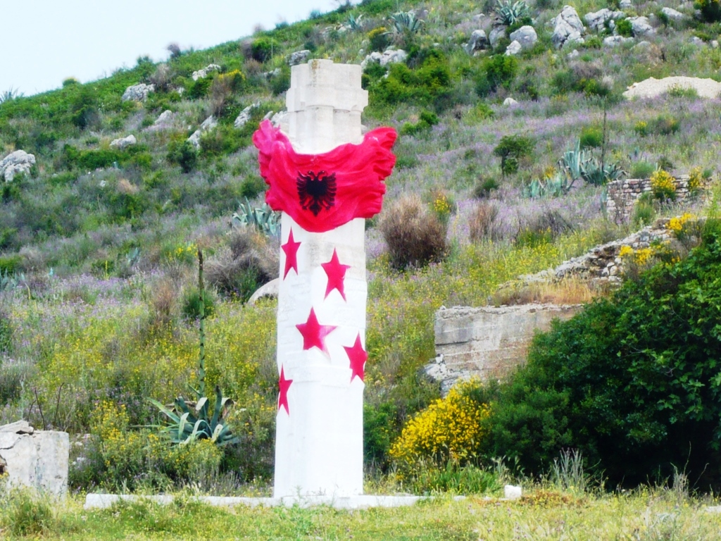 Lapidar on the road to Butrint, South Albania